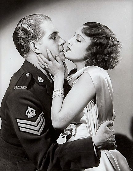 Still of Nelson Eddy and Jeanette MacDonald from the American musical film Rose Marie (1936).